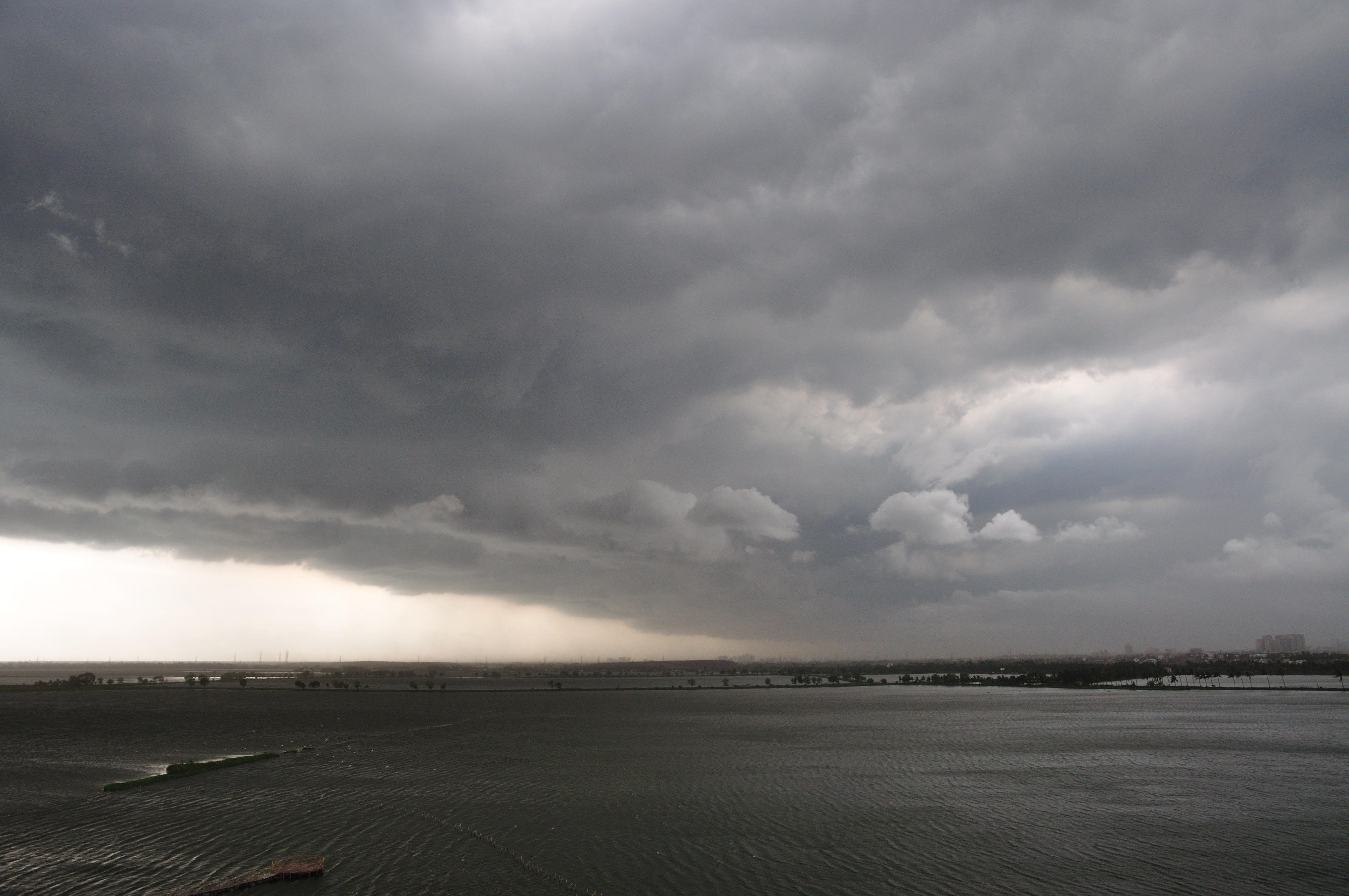 The 24th May, 2010 the second Nor’wester of 2010, hit Kolkata at 60kmph, accompanied by rain, till 5.30pm, the city had received 7.4mm of rain in 24 hours. Kolkata has received far fewer Nor’westers than normal in 2010. The first one came late on 7th May, 2010 accompanied by 31mm of rain in 24 hours.